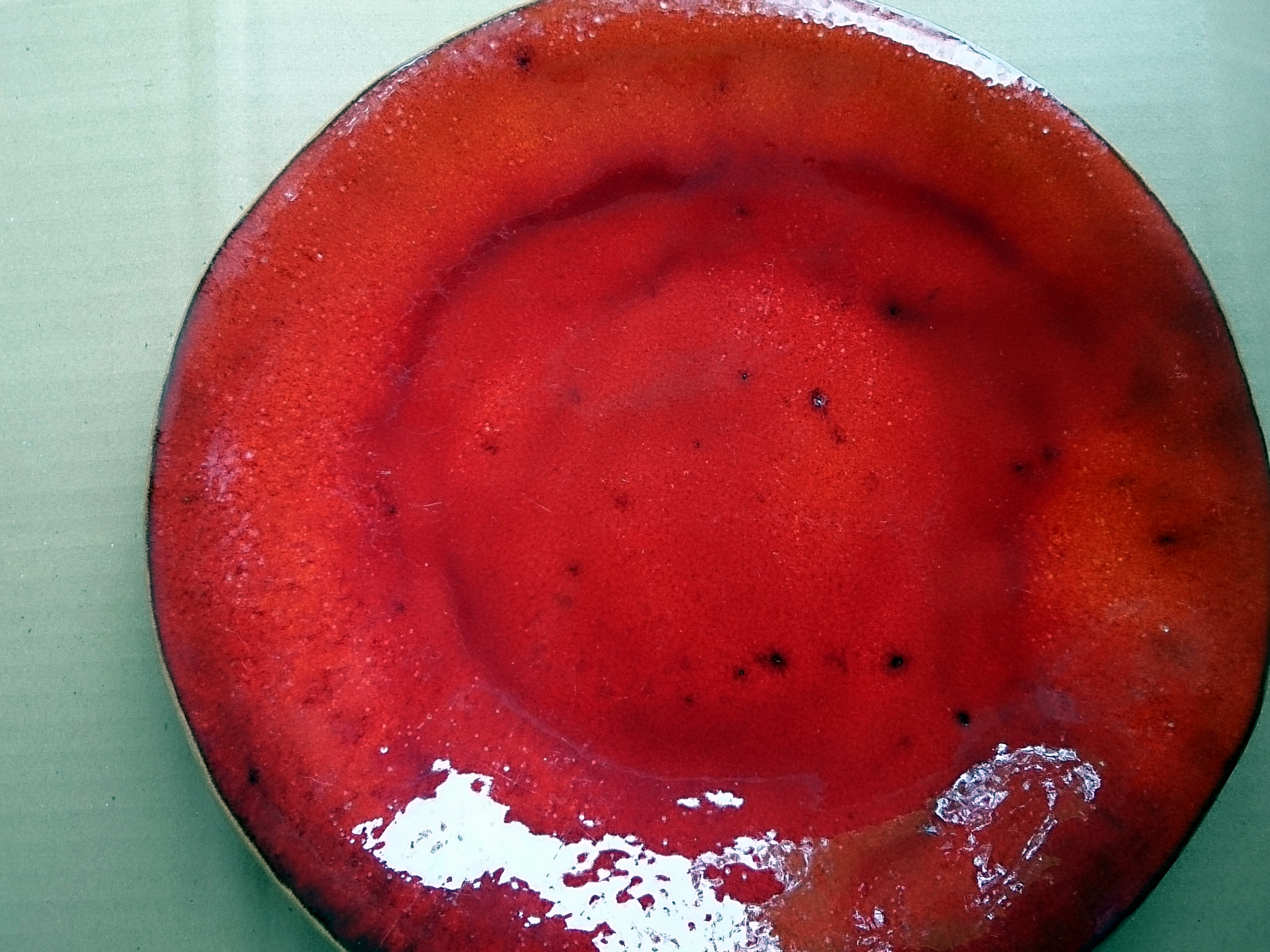 A piece by Ingrīda Cepīte, shaped without using a potter's wheel.